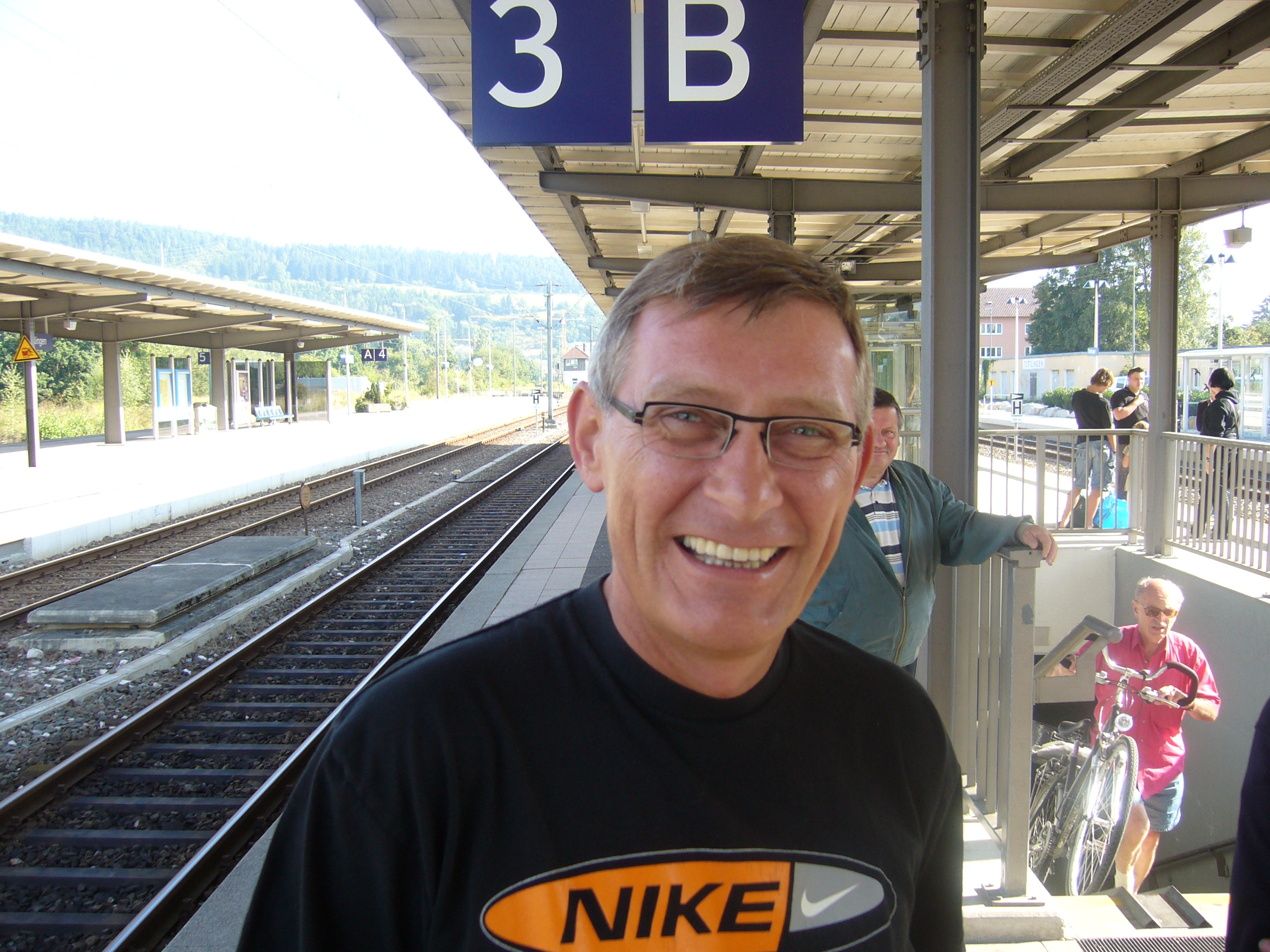 Michael Beck, mayor of Tuttlingen, Germany (picture taken in the train station of Tuttlingen)